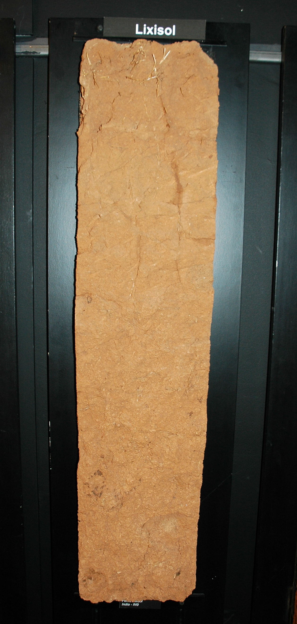 Soil profile of a ferric lixisol